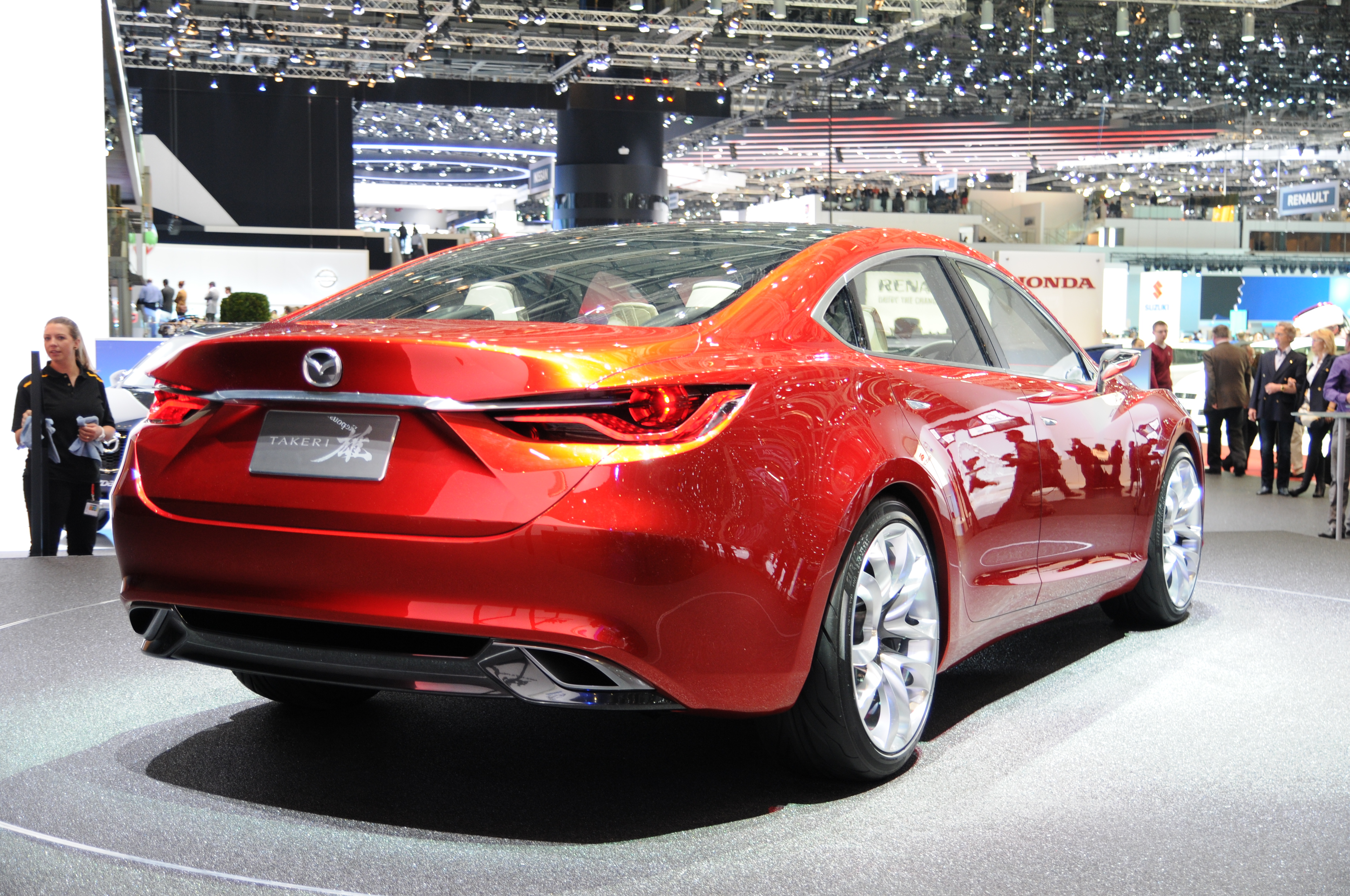 Geneva Motor Show 2012 (photos taken on the second press day)